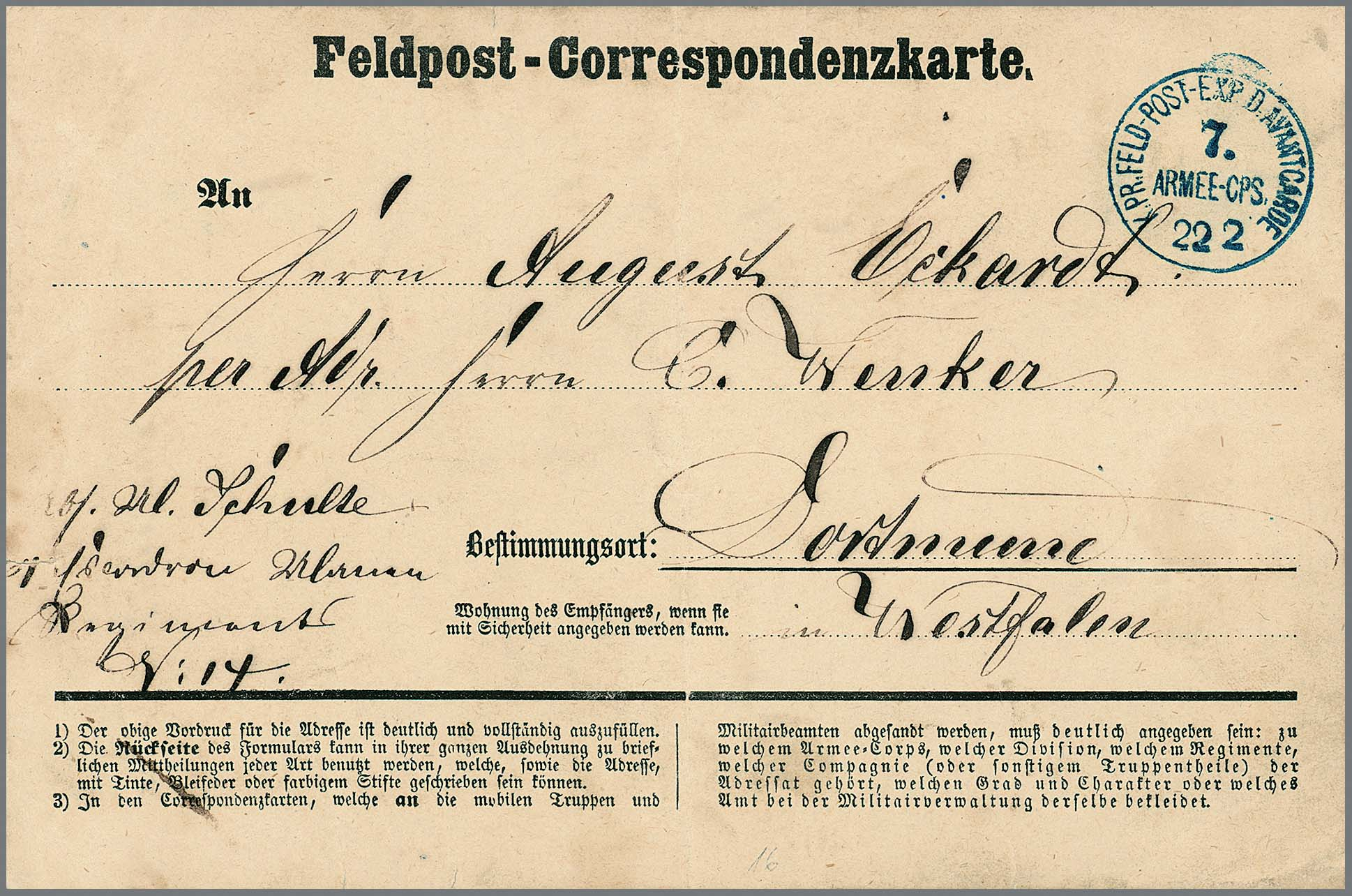 German military mail Correspondenzkarte of the Franco-Prussian War